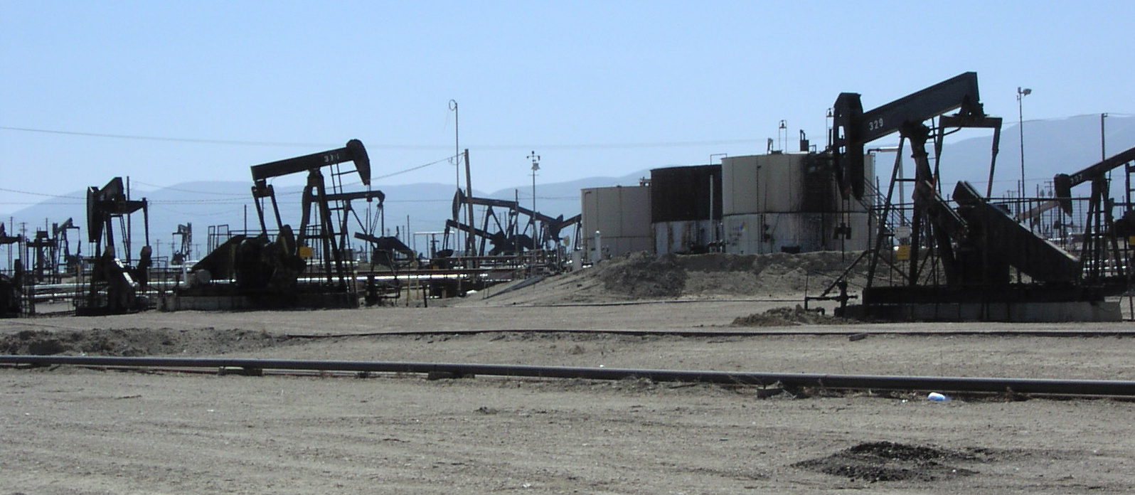 Oil wells and storage tanks; Midway-Sunset Oil Field, near Maricopa